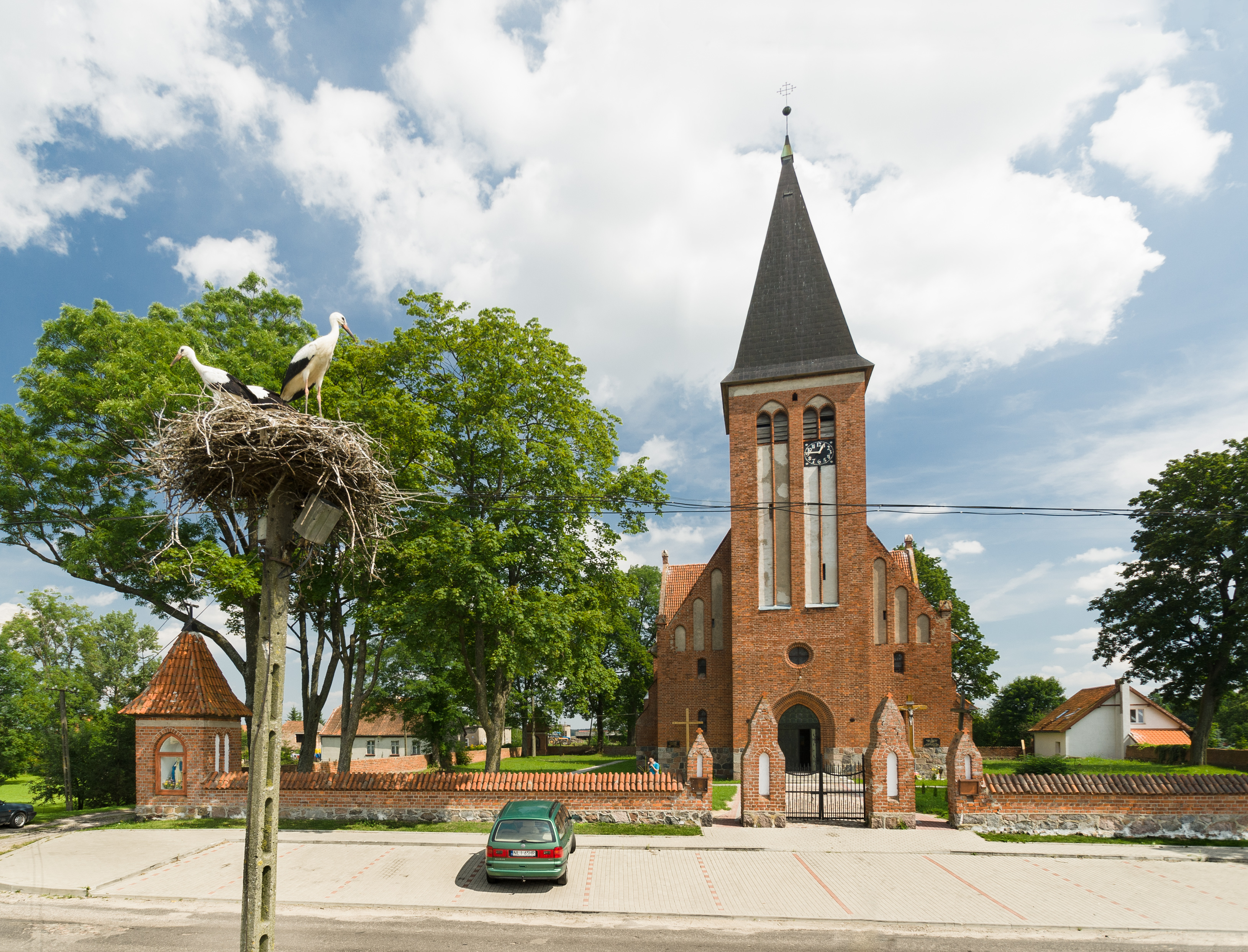 Saint John the Evangelist church in Żegoty.